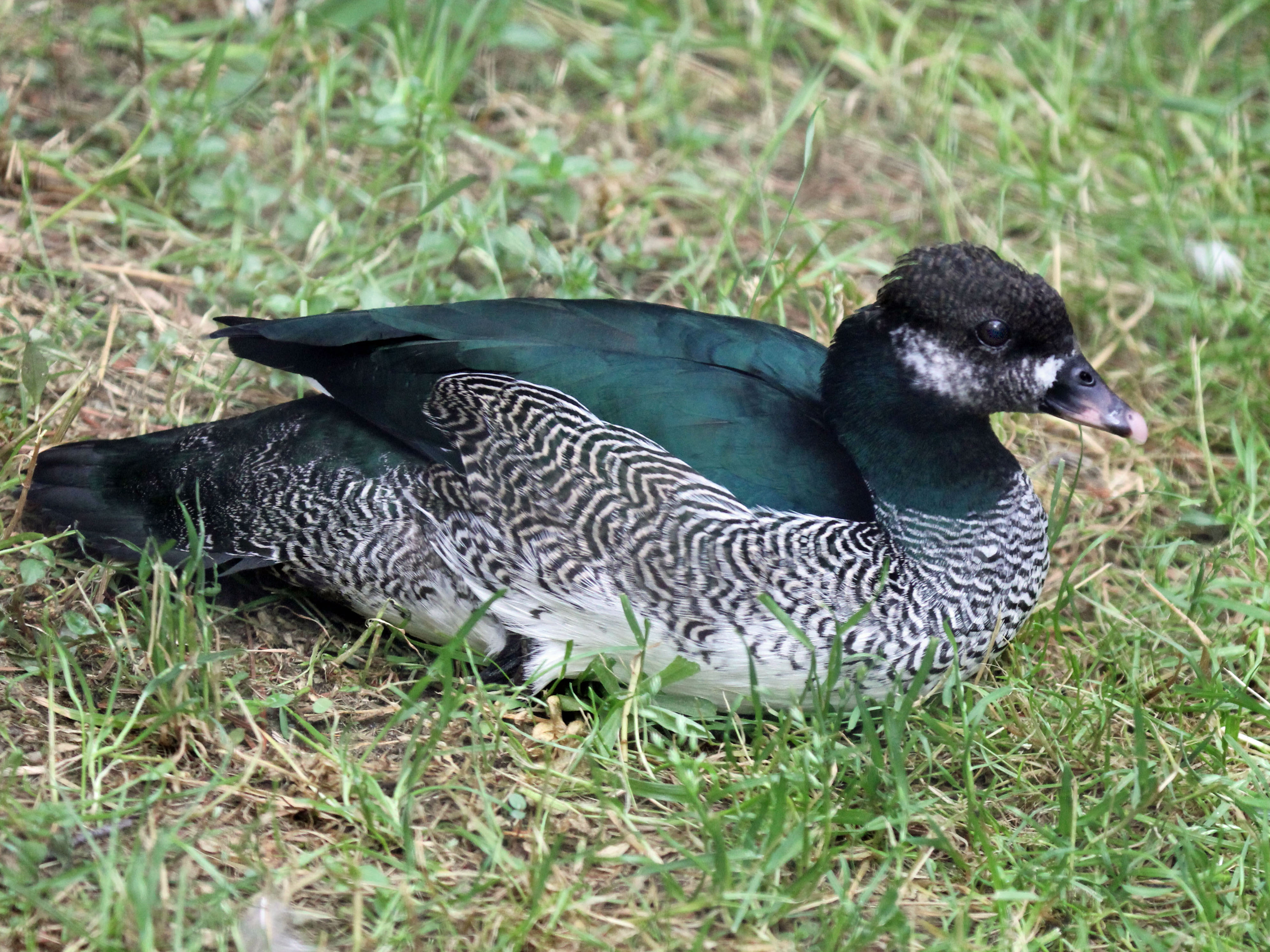 Green Pygmy Goose (Nettapus pulchellus) - Sylvan Heights Waterfowl Park, Scotland Neck, North Carolina